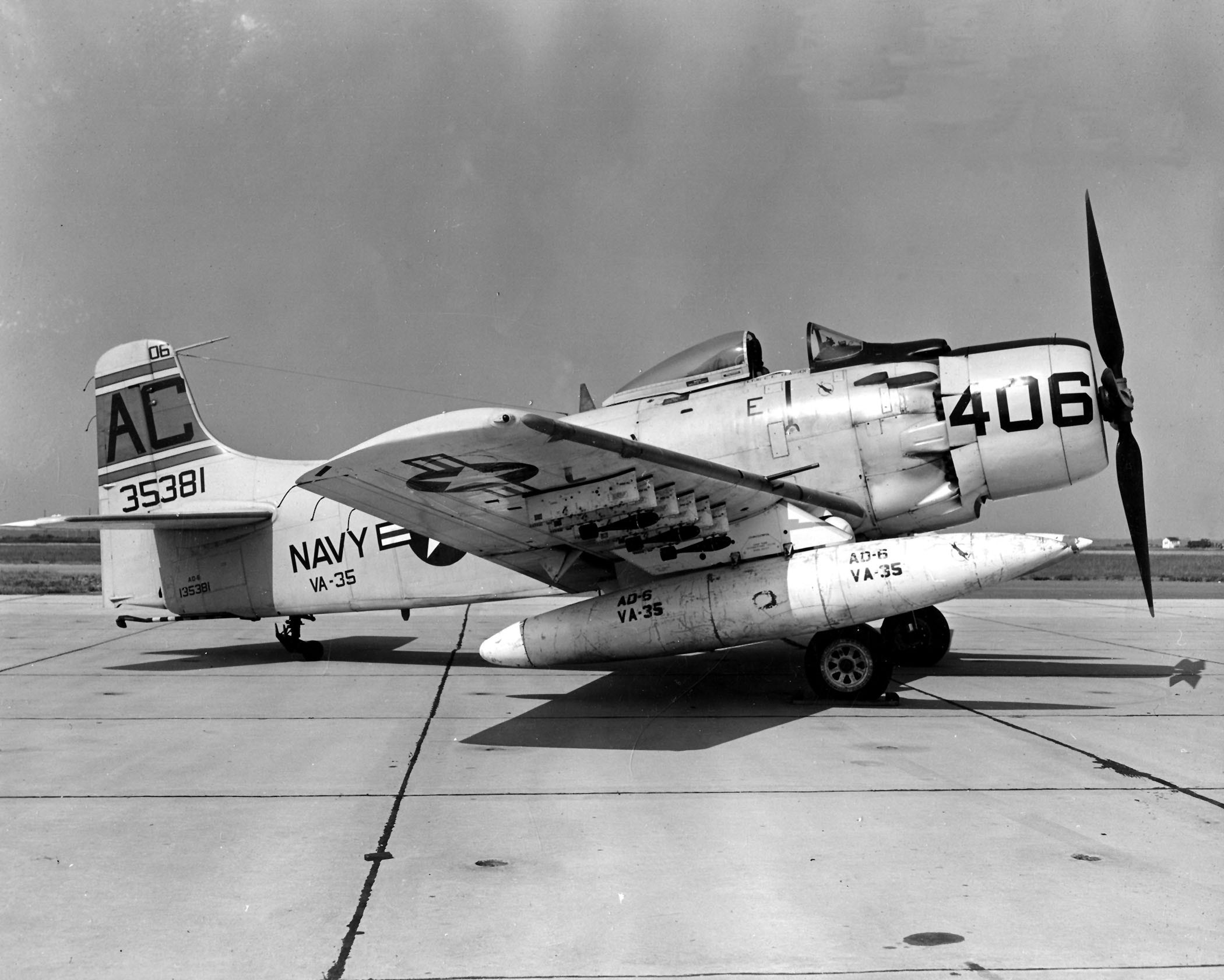 A Douglas AD-6 (later A-1H) Skyraider (BuNo. 135381) of U.S Navy attack squadron VA-35 Black Panthers at Naval Air Station Jacksonville, Florida (USA), on 3 July 1959. VA-35 was part of Carrier Air Group Three (CVG-3) aboard the aircraft carrier USS Saratoga (CVA-60). It was next deployed aboard the Saratoga to the Mediterranean Sea from 15 August 1959 to 26 February 1960.